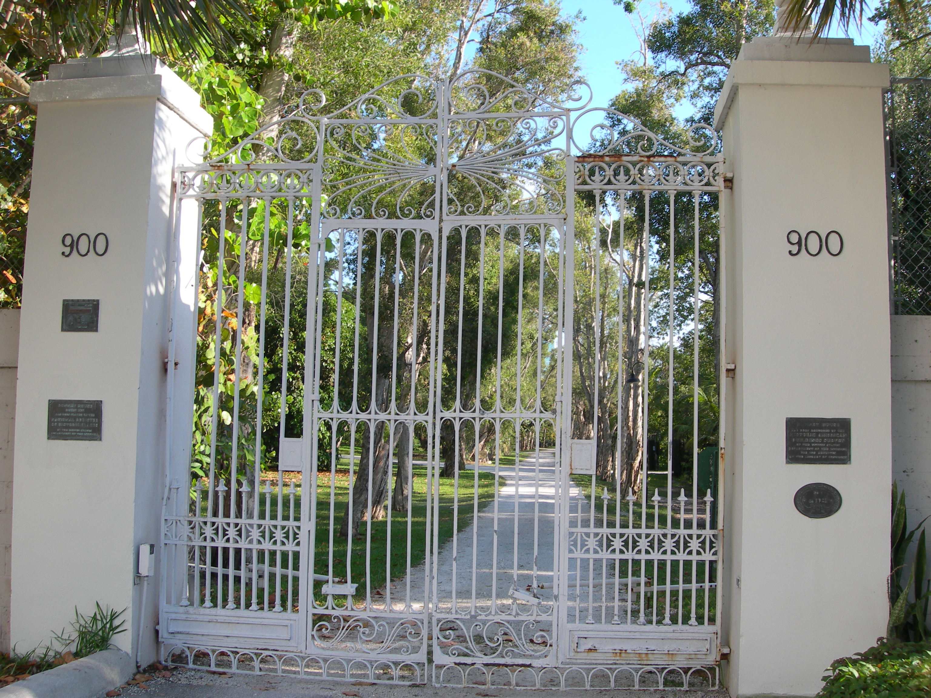 Gateway of Bonnet House grounds in Fort Lauderdale, Florida, USA